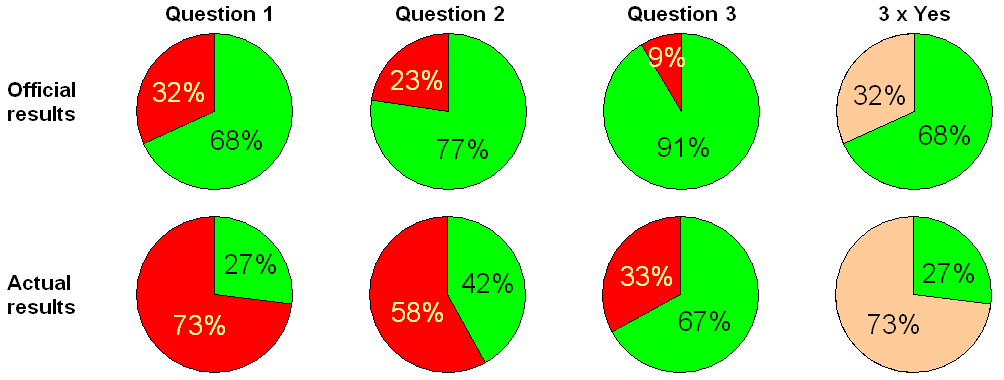 Difference between the official and actual results of the 1946 People's Referendum in Poland, also known as the Trzy razy tak (or "3×TAK") or "Three Times Yes" referendum.